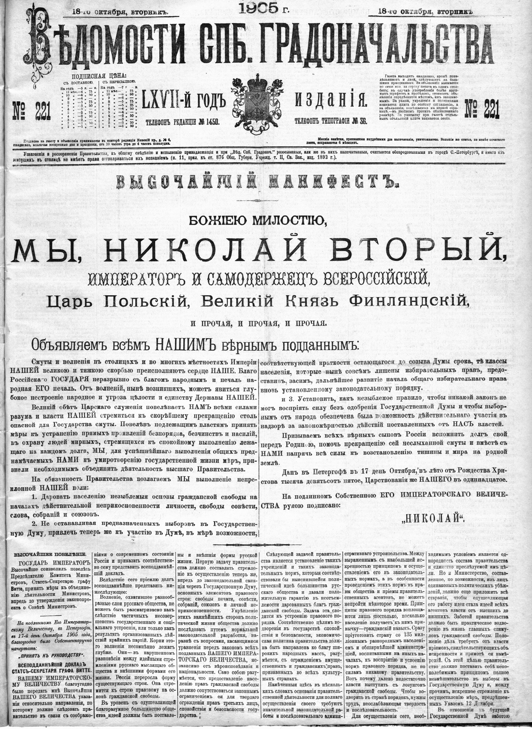 The October Manifesto issued by Nicholas II of Russia in 1905.